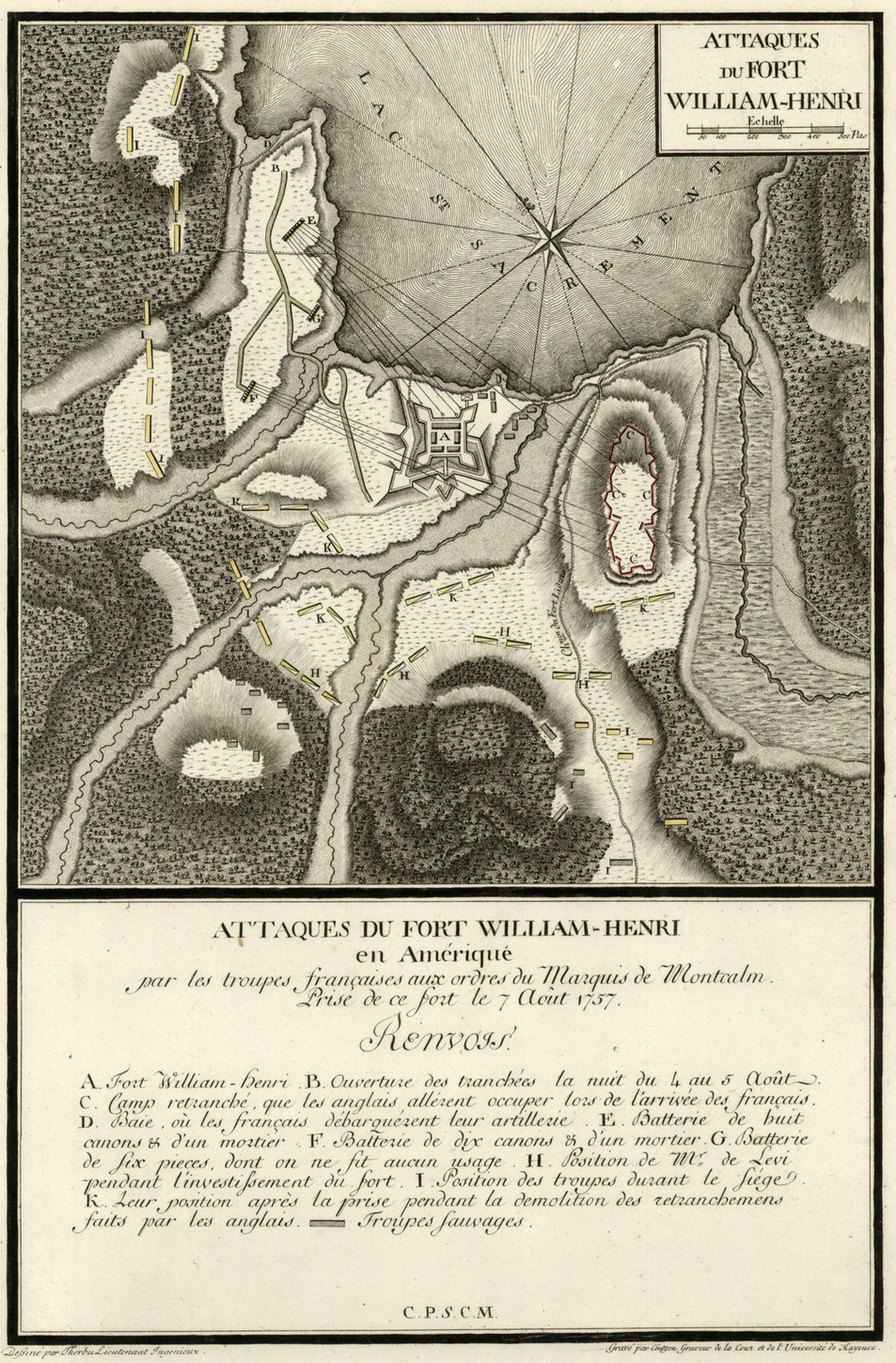 Detailed map of the seat of Fort William Henry in 1757 during the Seven Years' War. Map published in Germany around 1789, on the drawings of a French officer. Translation: Title: Attacks of Fort William Henry in America by troops under the command of the Marquis de Montcalm. Fort taken August 7, 1757. A: Fort William Henry. B: Opening of the trenches in the night of August 4th to 5th. C: Entrenched camp that the English went to occupy at the arrival of the French. D: Bay where the French landed their artillery. E: Battery of 8 guns and a mortar. F: Battery of 10 guns and a mortar. G: 6-gun battery that was not used. H: Position of Monsieur de Lévis during the attack on the fort. I: Position of the troops during the siege (in yellow, the French, in gray, the Indians). K: Position of the troops after taking the fort, during the demolition of the entrenchments made by the English.